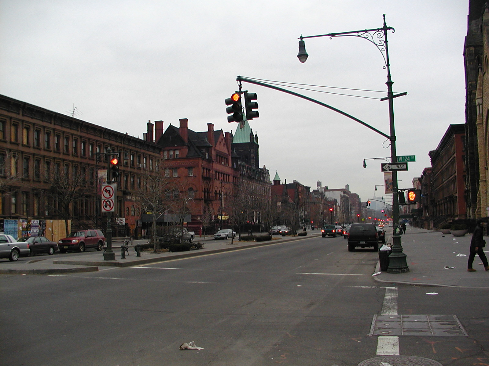 Lenox Avenue (Manhattan) looking south seen from the corner of 124th Street. I (Petri Krohn) took this picture in March 2005. Category:Photographs by User:Petri Krohn